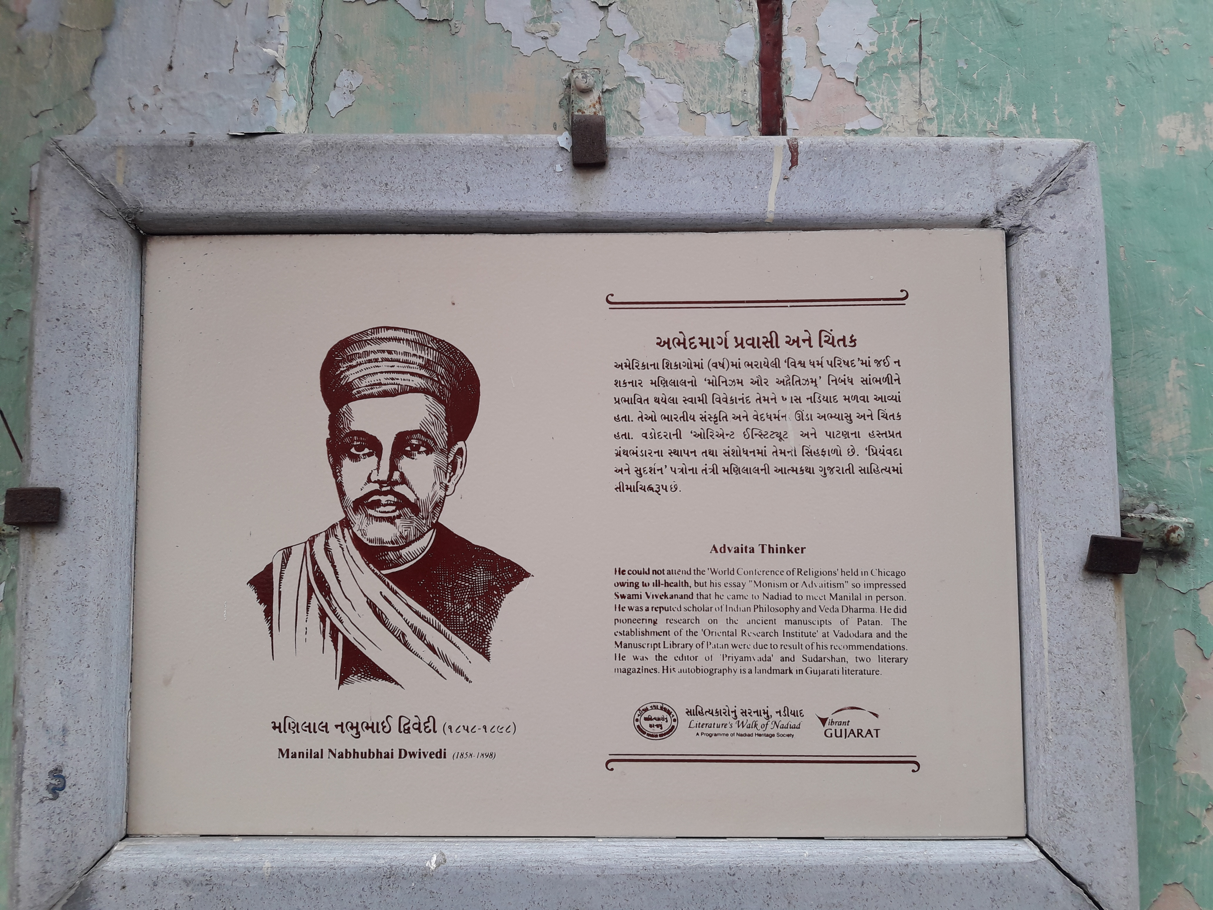 Plaque at the birth place of Manilal Dwivedi, a Gujarati writer, poet and philosopher